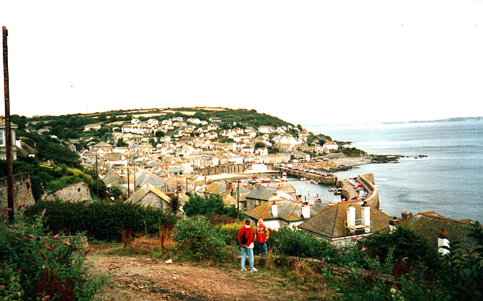 A view from a cliff in Mousehole, Cornwall